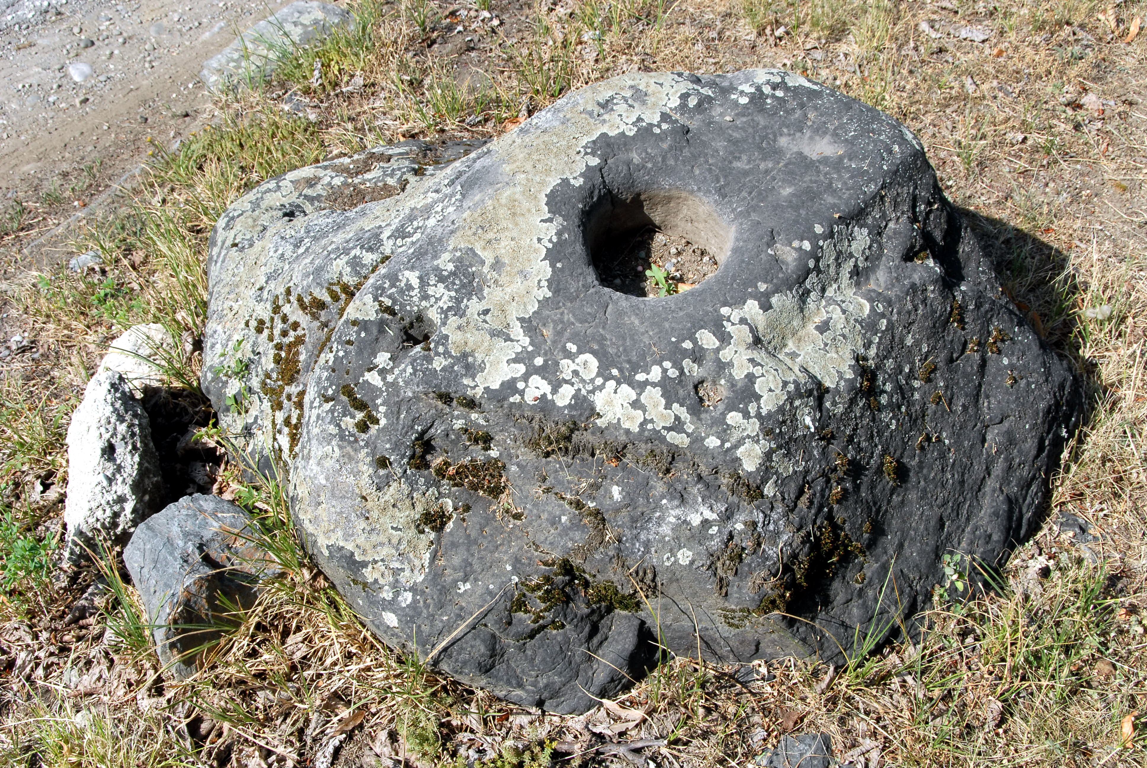 Cup stone (place of sacrifices from the celtic period) in the Saint Oswald street - crossroad with the Goritschacher road, municipality Pörtschach am Wörther See, Carinthia, Austria.